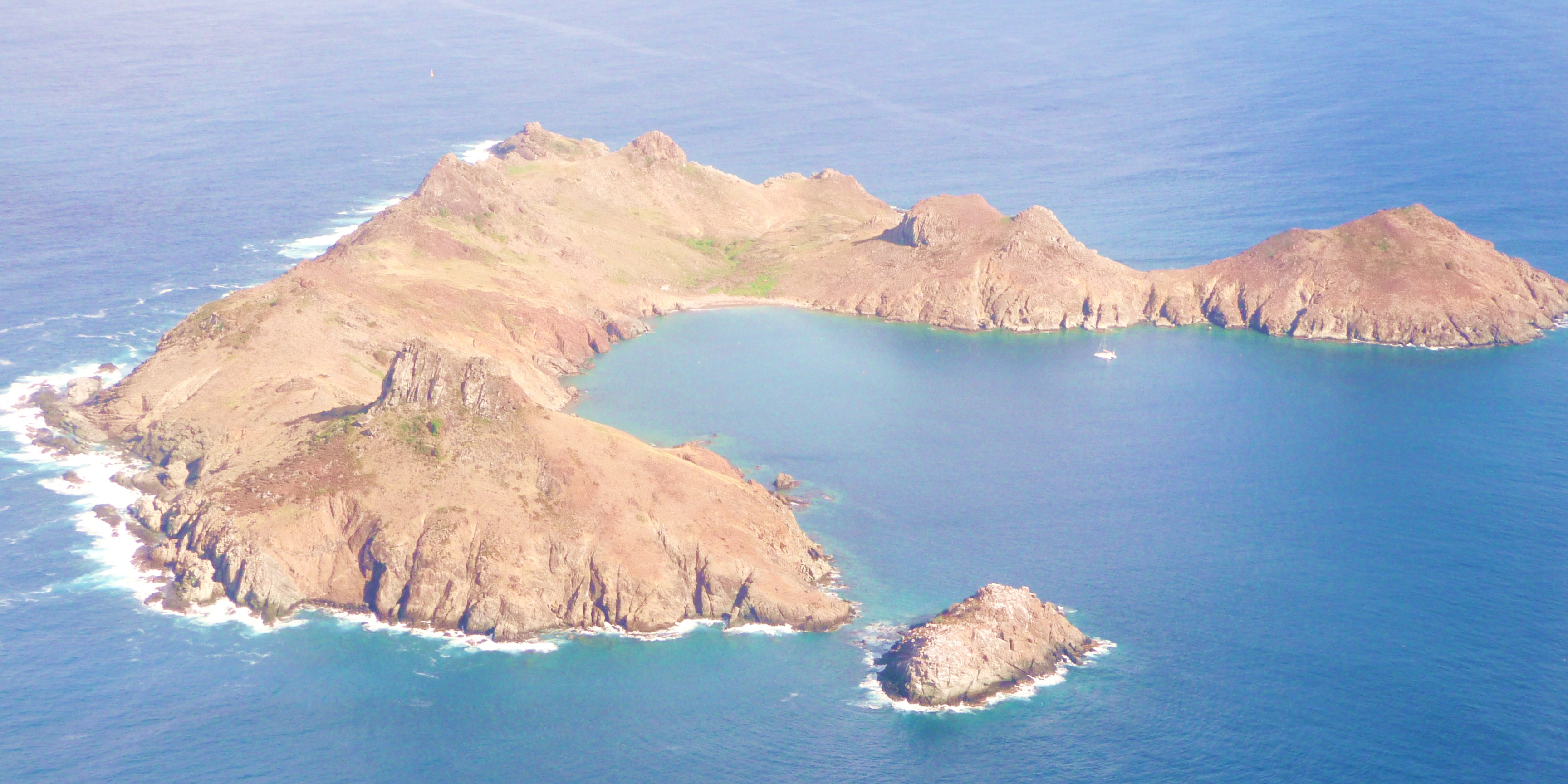 Island of Fourchue (St. Barths)